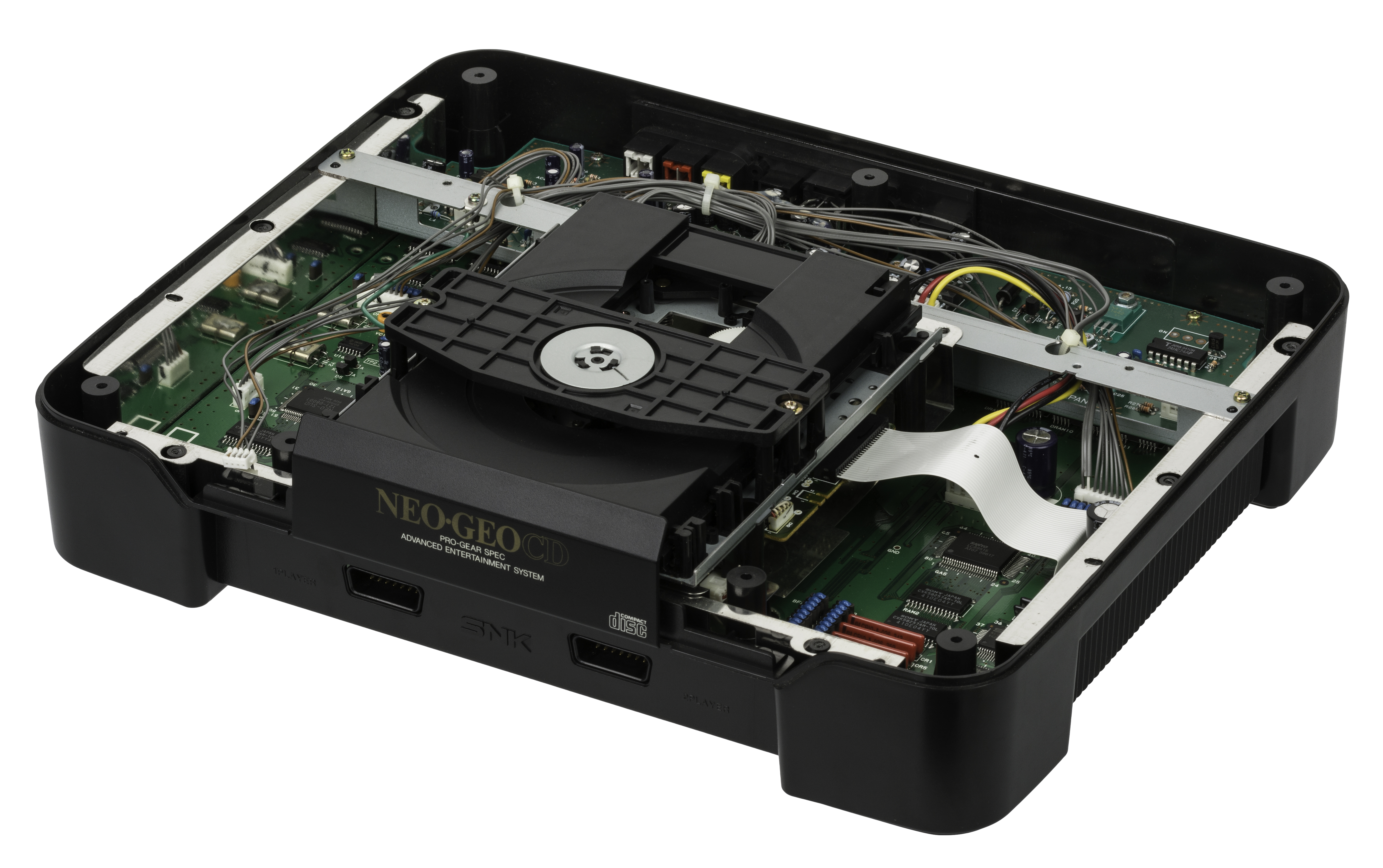 A Neo Geo CD, a video game console released by SNK in Japan in 1994, with the top casing removed. This is the front-loader model, which was the first version released and only in Japan.